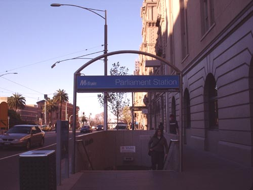 Parliament Station sign, Melbourne.